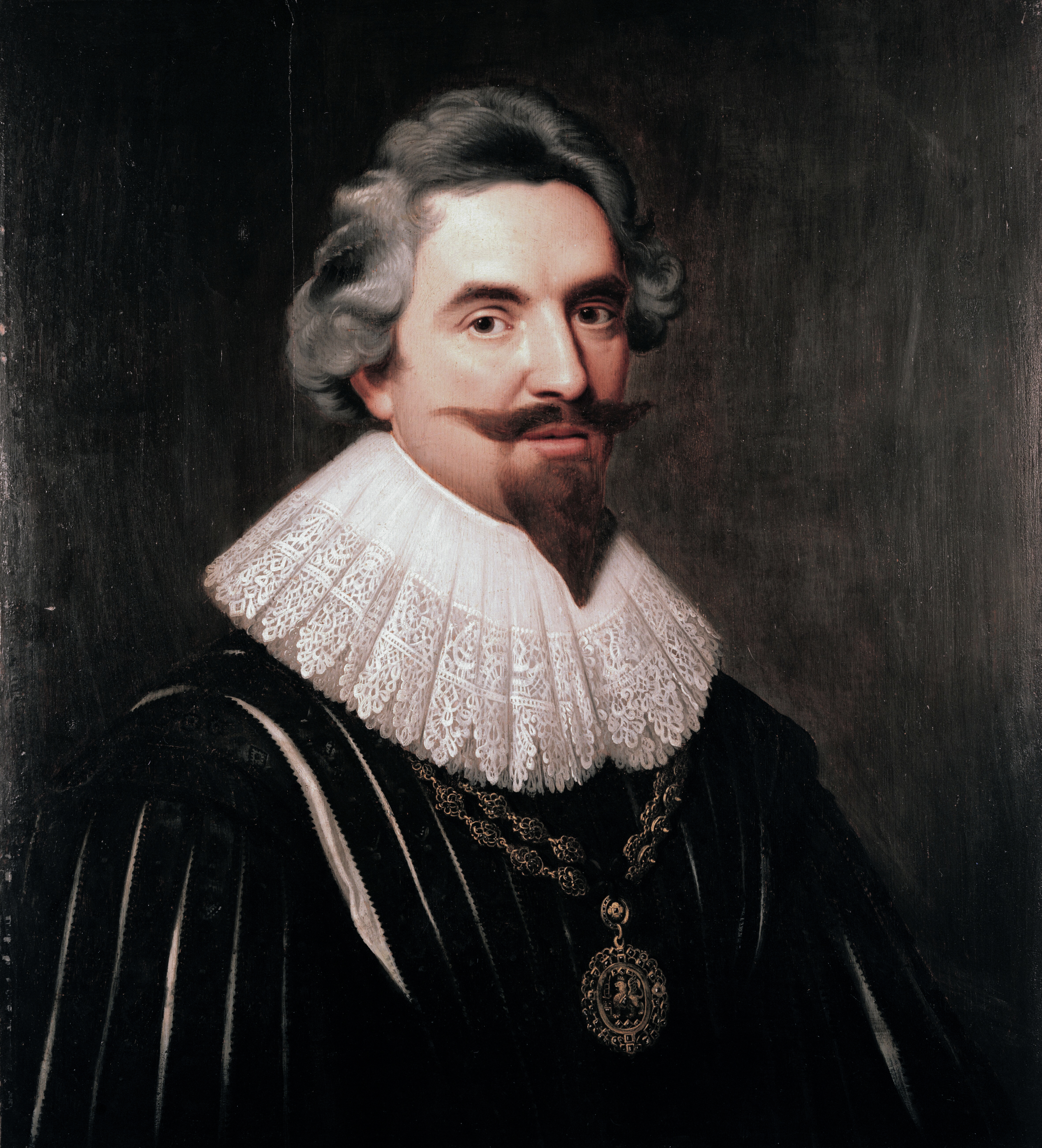 Philibert Vernatti (1590-1643) oil on panel 71 x 60 cm 1625 - 1649